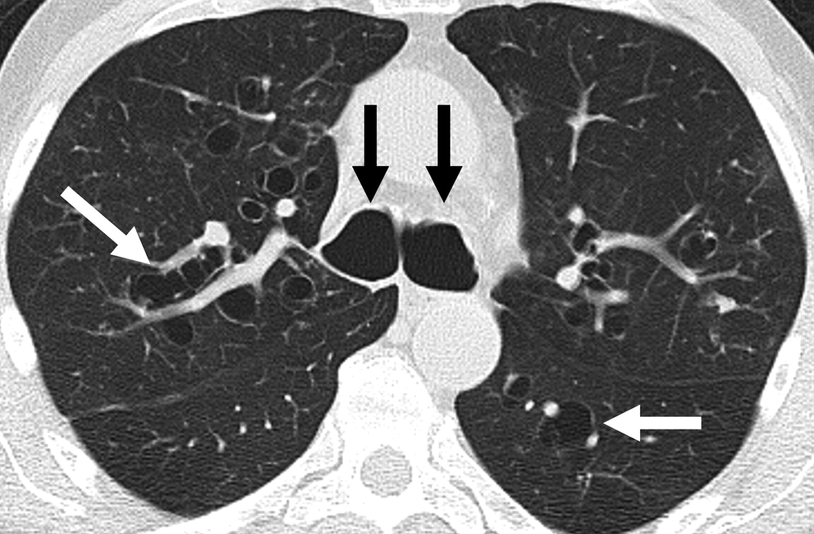 k,,p8ycñ